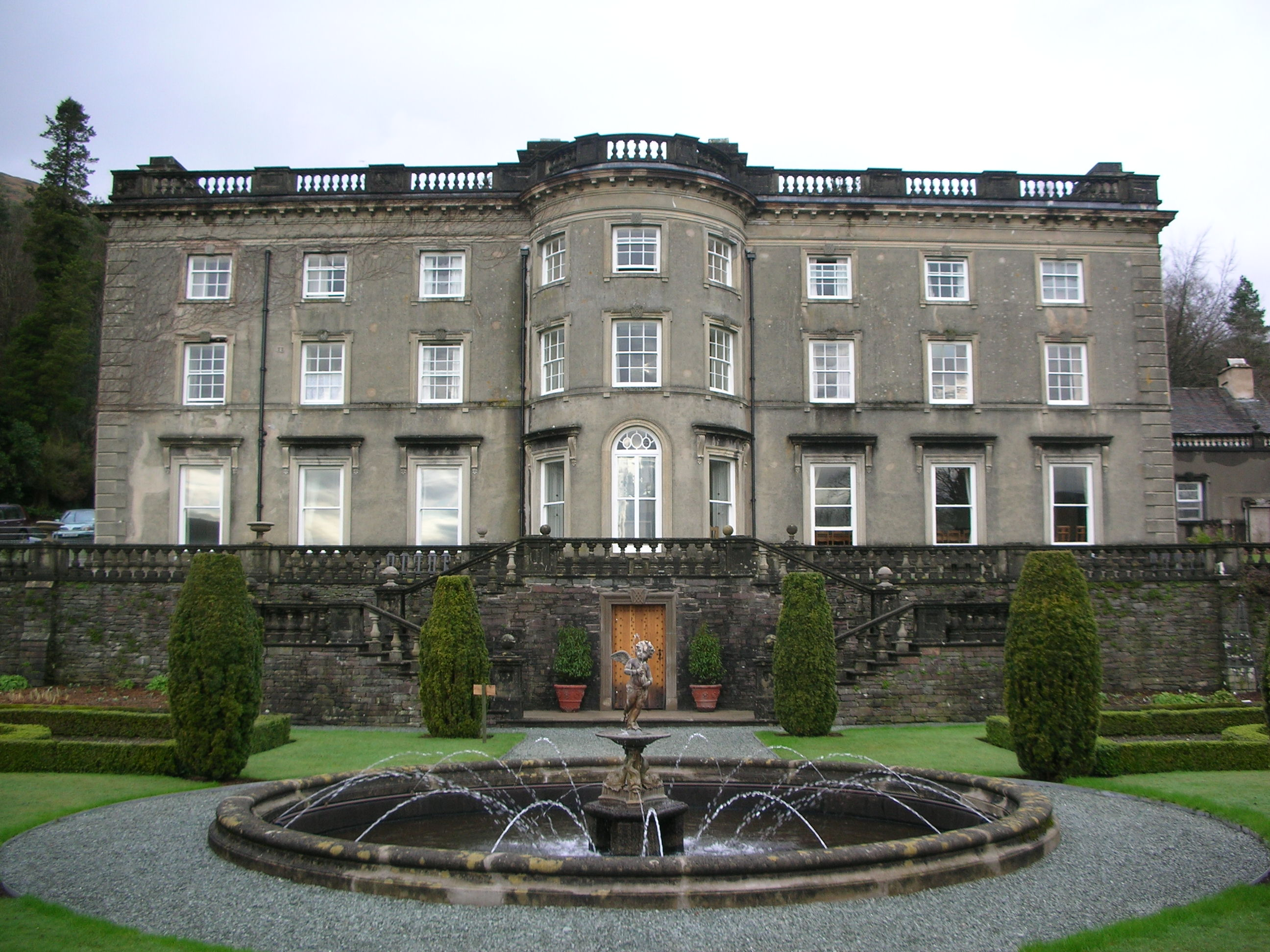 Rydal Hall in the Lake District, England. Photograph by Jonathan Bowen.